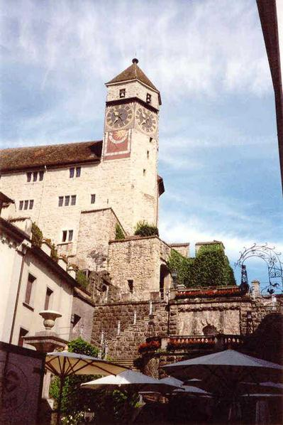 Yorkshire Terrier